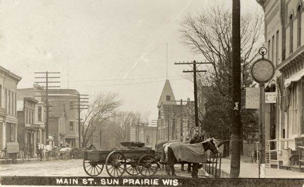 image of Sun Prairie, Wisconsin, circa 1900, depicting Main Street likely in winter or early Spring. Horse-driven carriages and wagons appear to be the sole conveyances.